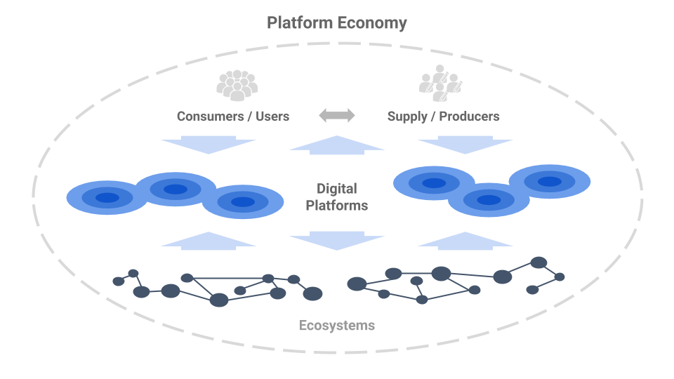 Visualization of platform economy key elements.